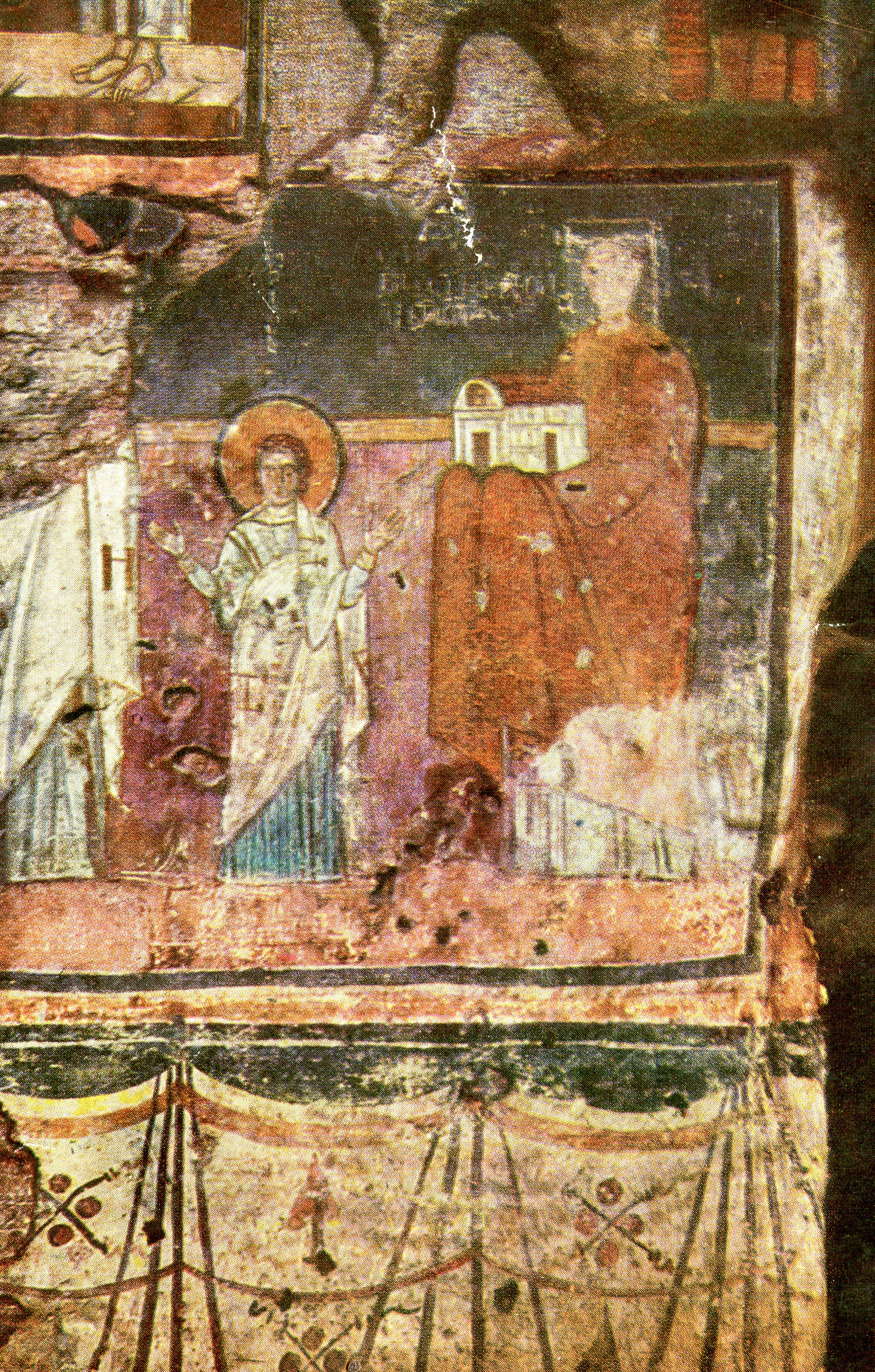 Primicerius Theodotus, a Byzantine fresco (8th cent.) from the Chapel of Theodotus in the Santa Maria Antiqua church of Rome